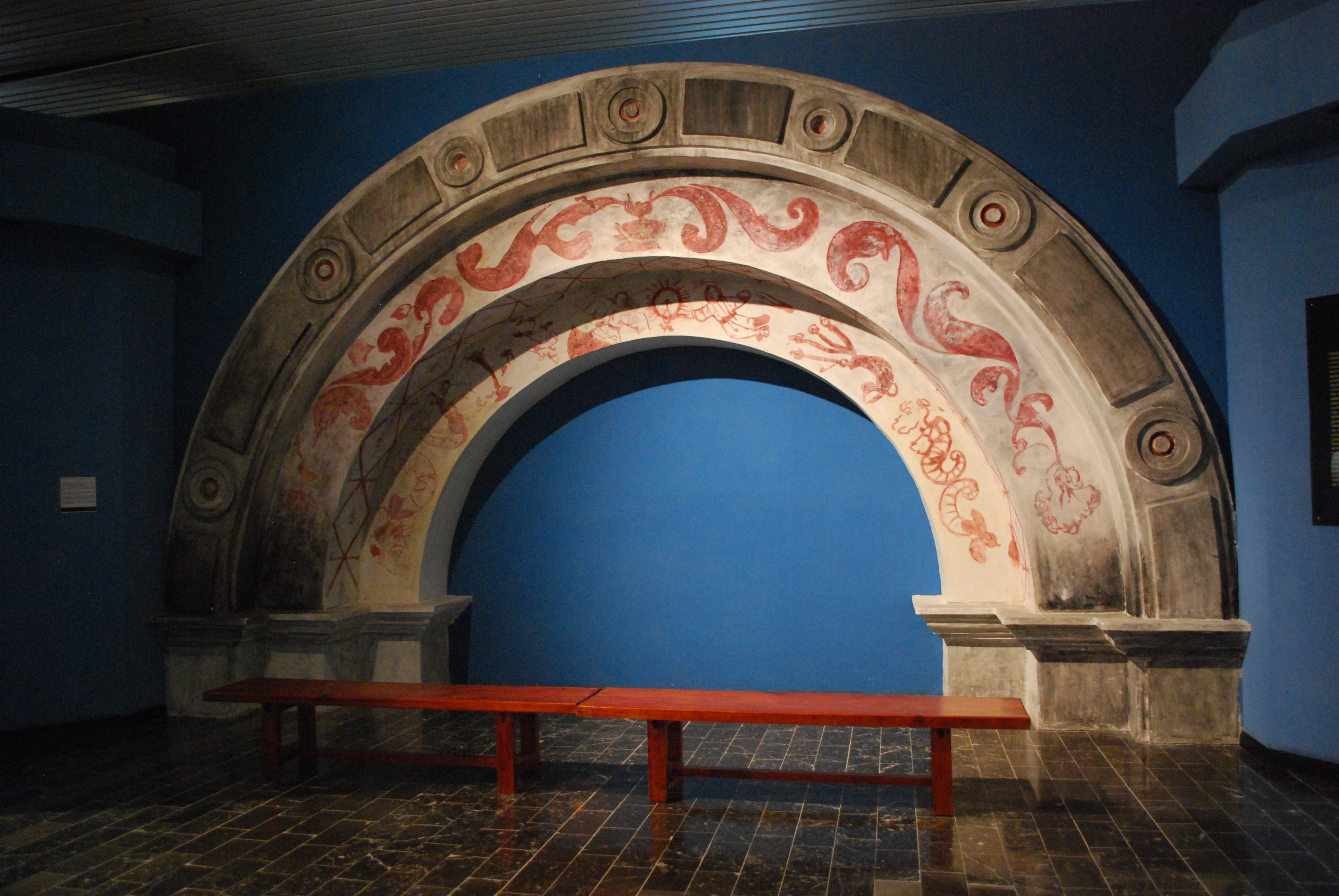 Colonial style arch in the Regional Museum in Tuxtla Gutierrez, Chiapas, Mexico